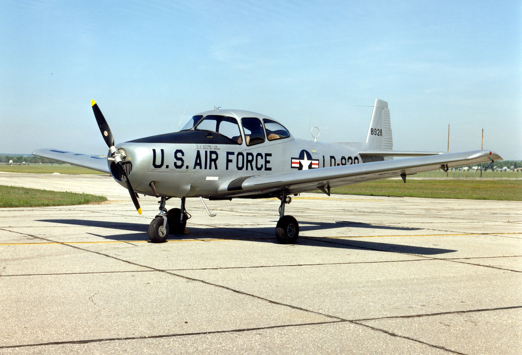 A U.S. Air Force North American L-17A Navion (s/n 47-1347, marked as 48-928) at the National Museum of the United States Air Force. The Ryan Aeronautical Company acquired the design in 1948, and built approximately 1,200 examples over the following three years. Ryan designated the aircraft the Navion A with a 205 hp (153 kW) Continental E-185-3 or -9 and, later, the Navion B with 260 hp (194 kW) engines of either the Lycoming GO-435-C2, or optionally the Continental IO-470 engine. The Navion A became the basis for the military L-17B. After 1962, the L-17 was designated U-18.